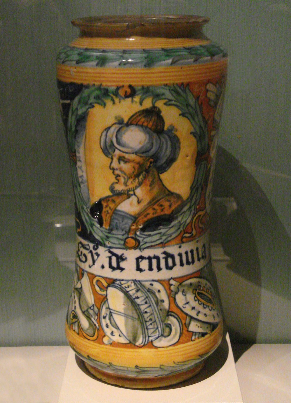 Albarello_with_head_of_a_Turk_Faenza_1555